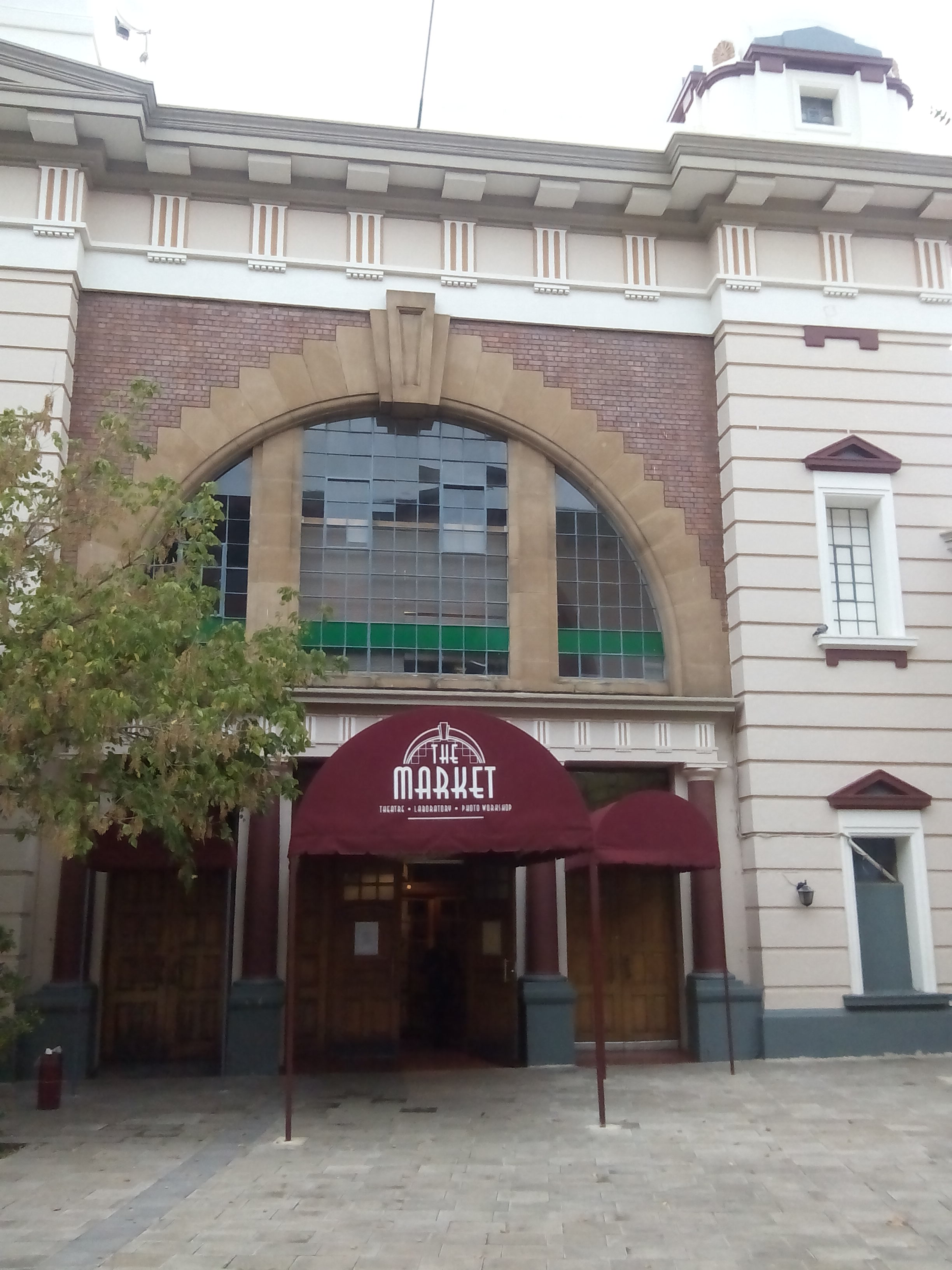 This is the picture of the Market Theatre which eventually changed its name to John Kani Theatre.